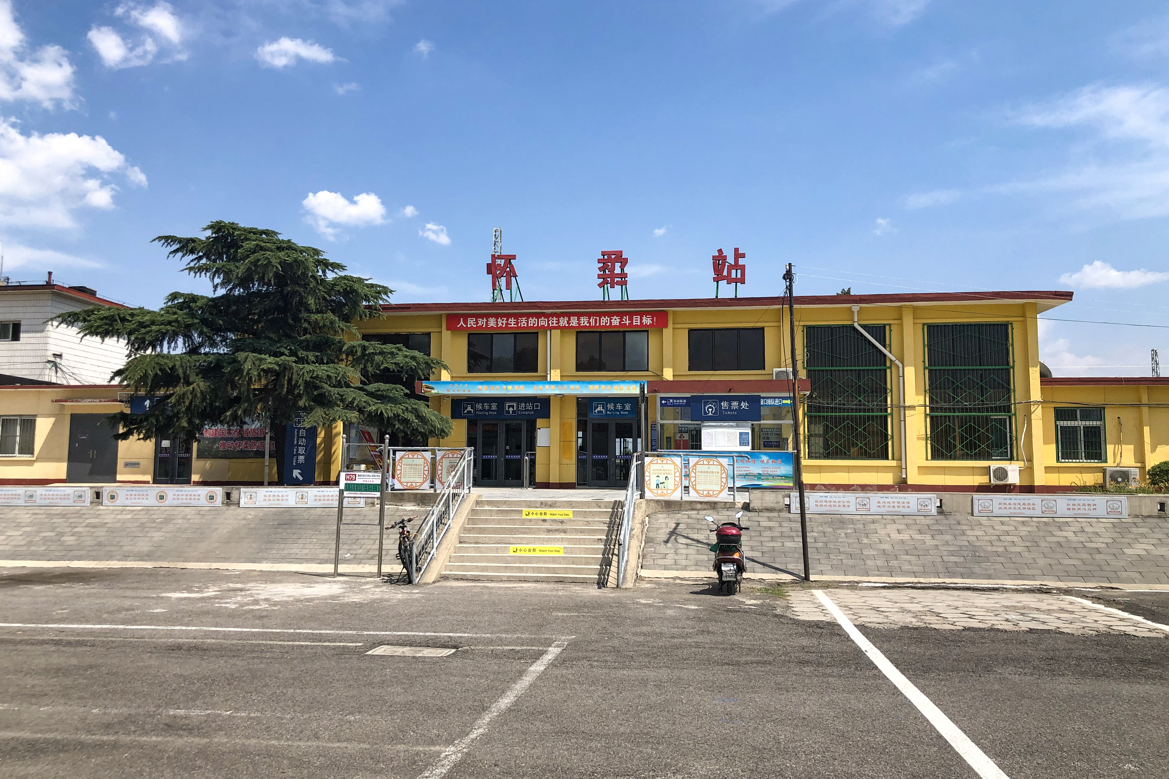 Bifurcation point.